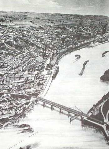 An 1888 lithograph showing Davenport, Iowa on the left and the Rock Island Arsenal on the right (the Clock Tower is shown near the bridge). The bridge is the second of three that was built in this general area. It replaced the first bridge across the Mississippi River.